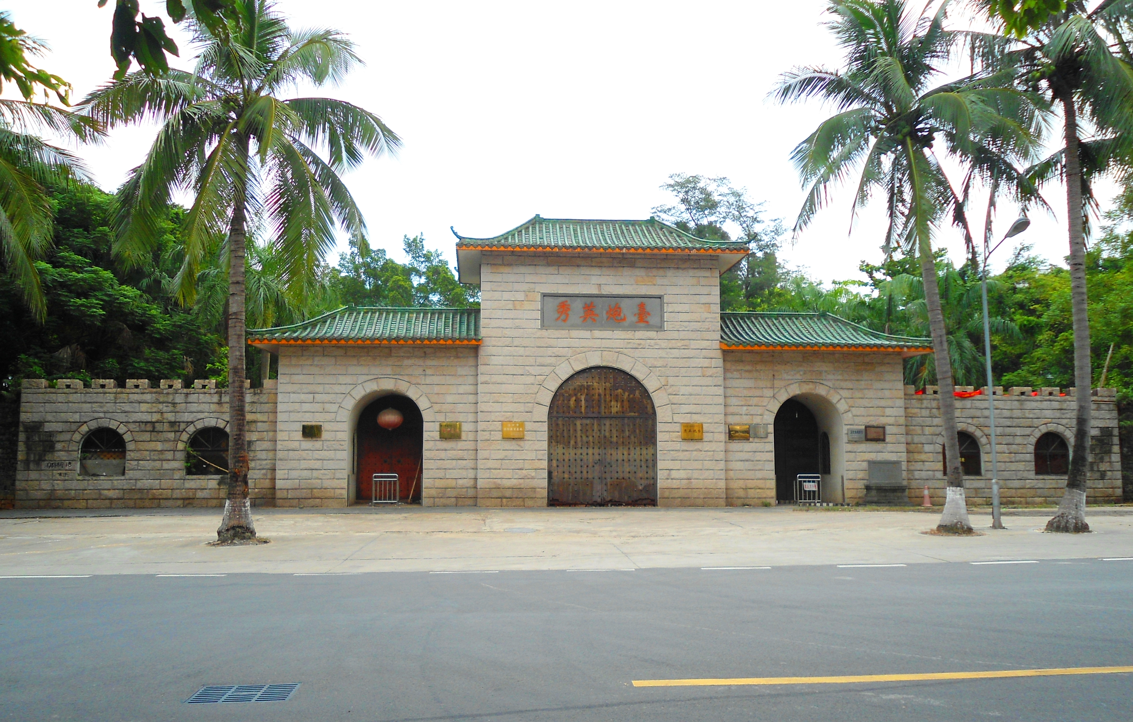 Xiuying Fort — front entrance, Haikou City, Hainan Province, China.